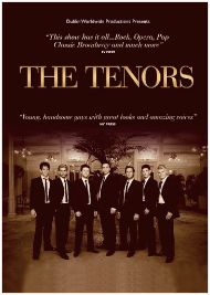 This is a poster for the show The Tenors by theatre producer David King.